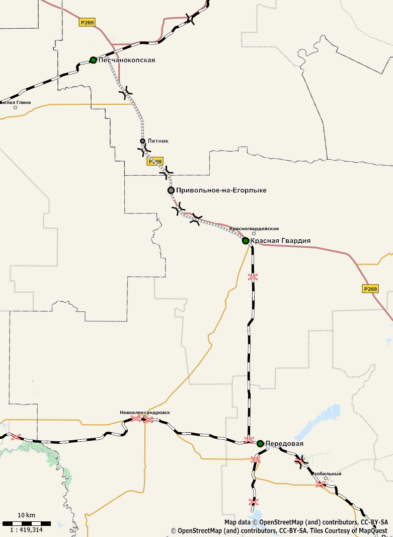 Map of railway Pechanokopskaya - Peredovaya, Russia.